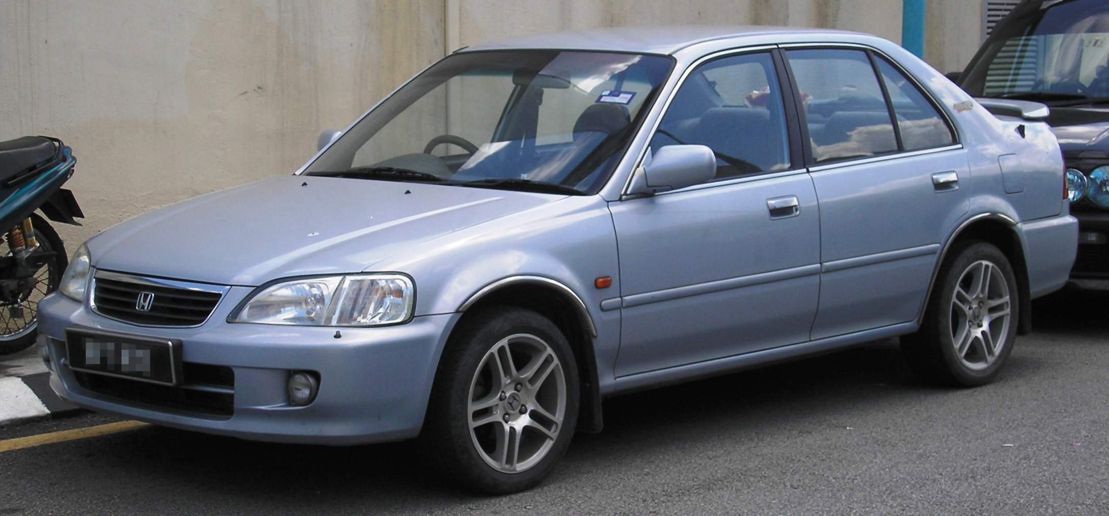 Front quarter view of a third generation, first facelift Honda City, in Serdang, Selangor, Malaysia.